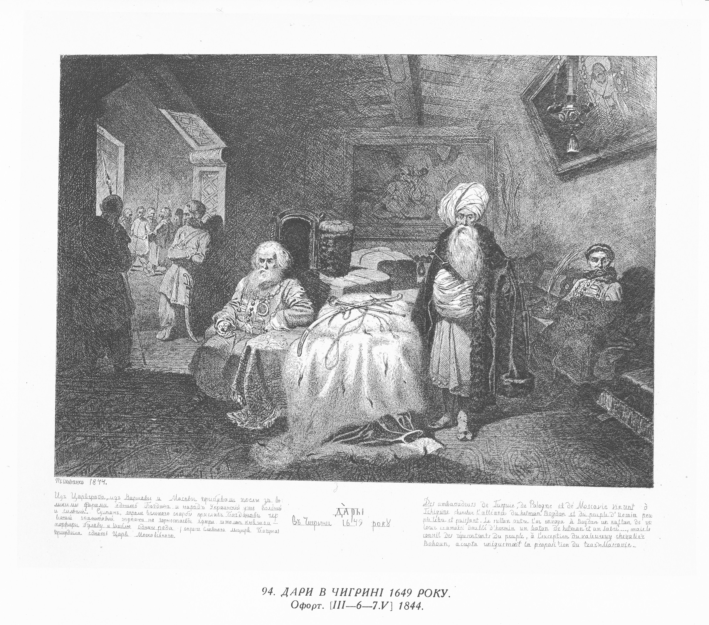 Painting of Taras Shevchenko